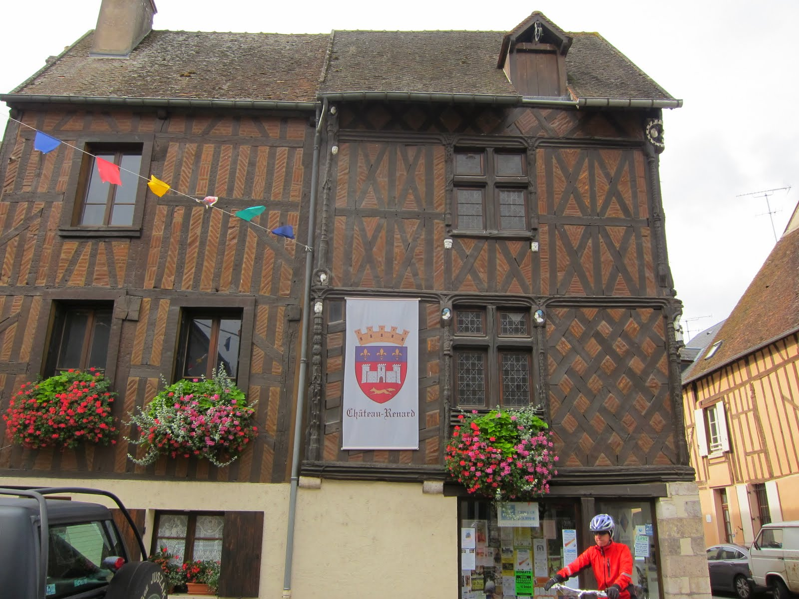 Half Timber Extraordinaire